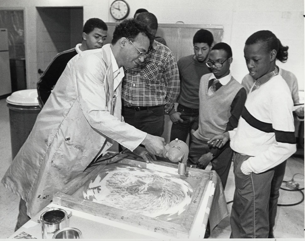 Jim Mayo, Supervisory Exhibits Specialist at Anacostia Neighborhood Museum (ANM), explains the silk-screen process to a group of prevocational trainees from the D.C. Association for Retarded Citizens.